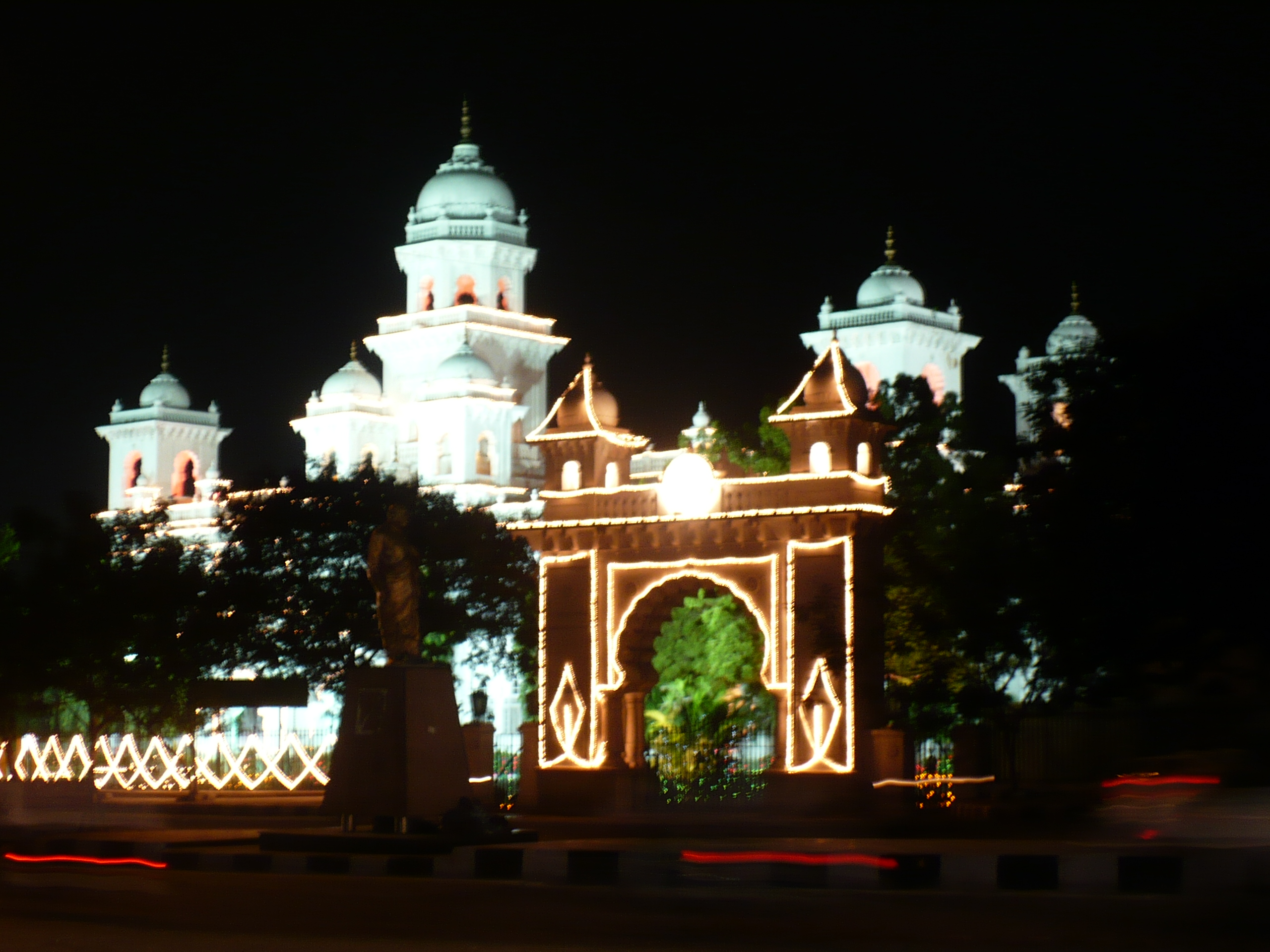 Andhra Pradesh/Telangana Legislative Assembly in Hyderabad